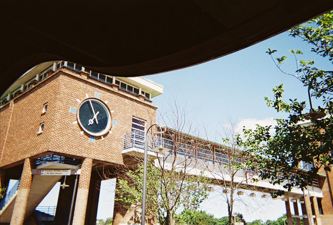 The Ronkonkoma (LIRR station) North Parking Garage, which includes a clock tower and pedestrian bridge across Railroad Avenue North.